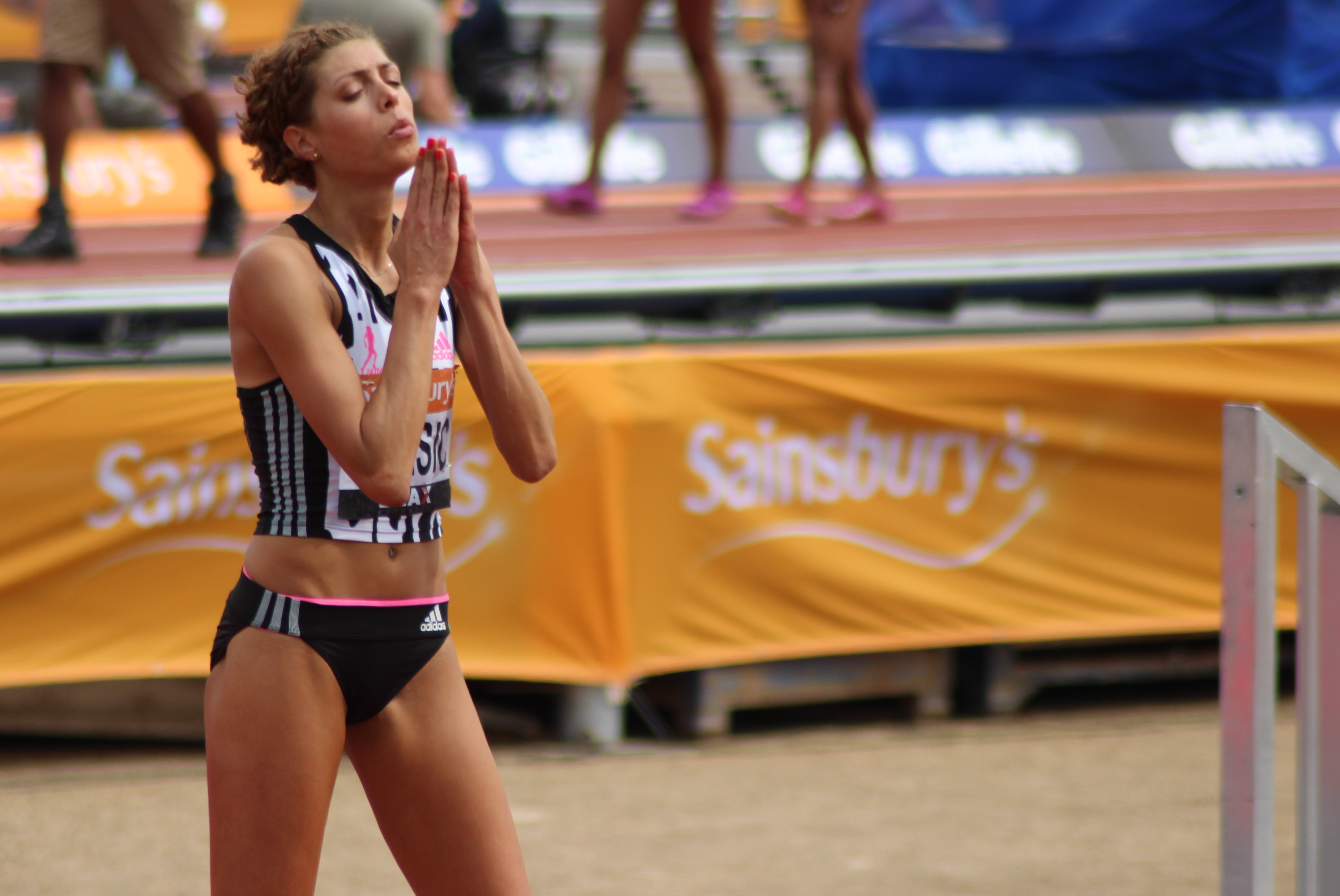 Croatian high jumper Blanka Vlasic celebrates after her winning leap at the London Anniversary Games